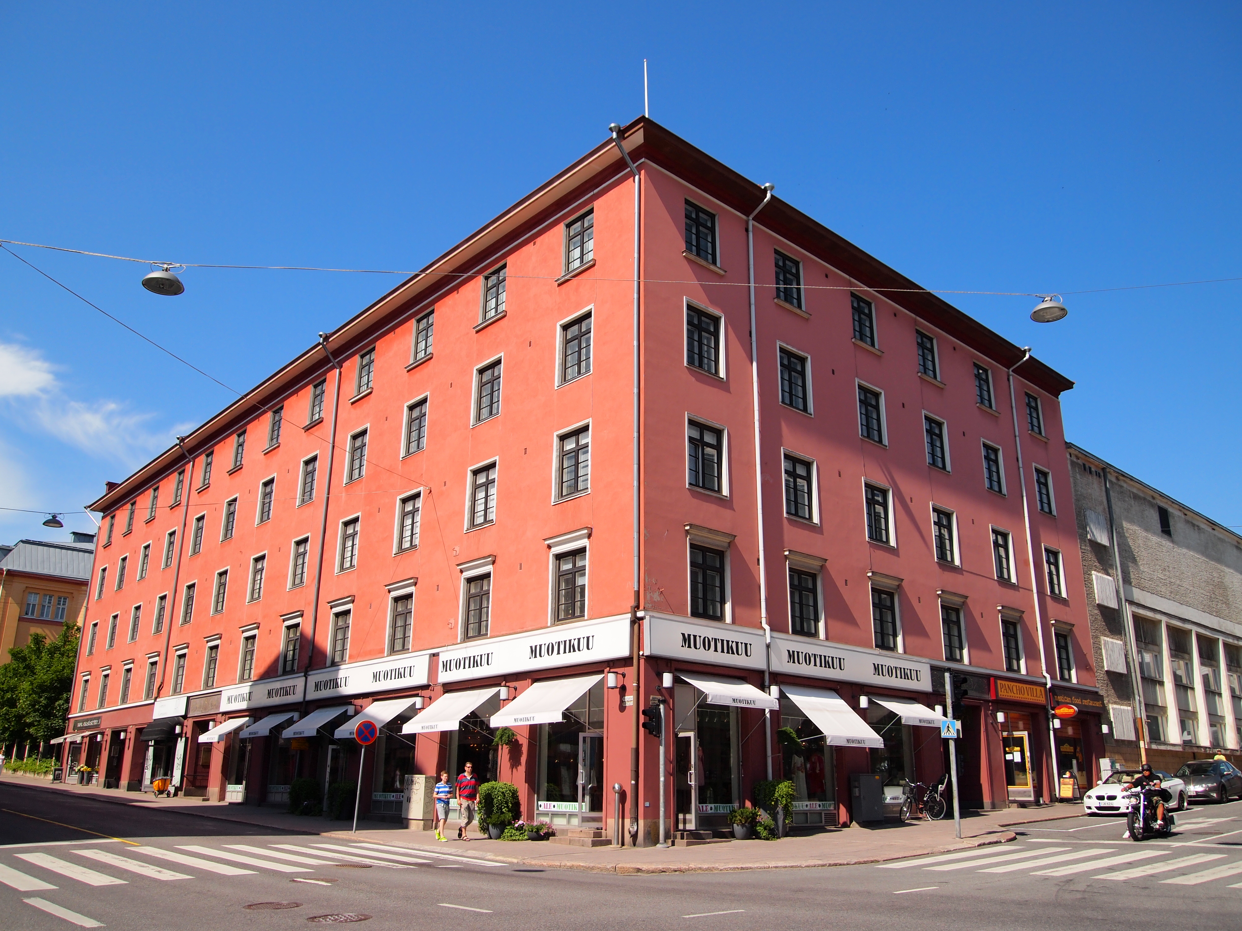 Maariankatu 5, a red building in Turku. This photograph was taken with an Olympus E-PL1